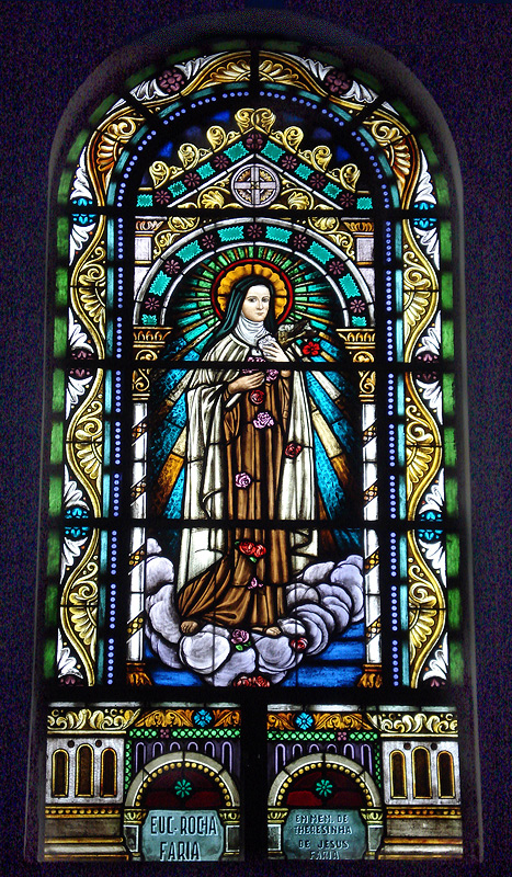 Stained glass depicting St. Thérèse de Lisieux, interior of the Chapel of the Holy Ghost, Porto Alegre, Brazil